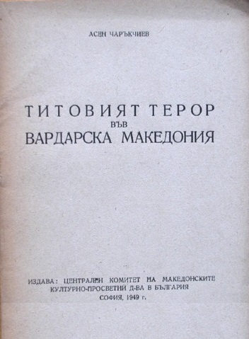 Tito's_Terror_in_Vardar_Macedonia